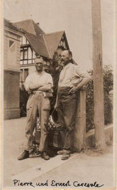 SCI : Liechenstein, 1928. Pierre Ceresole and his brother Ernest Ceresole (colonel in the Swiss army)